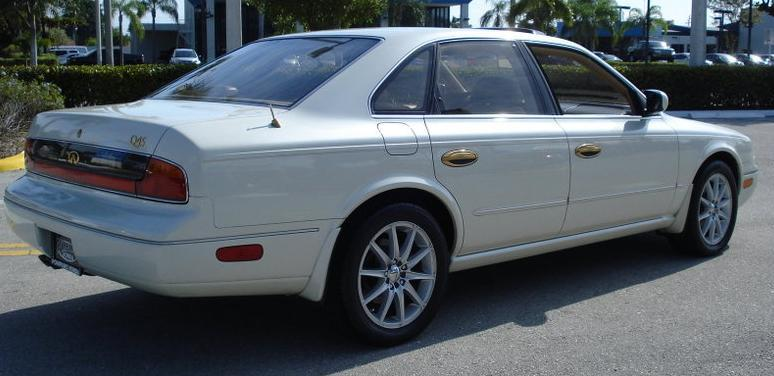 1995 Infiniti Q45 sedan